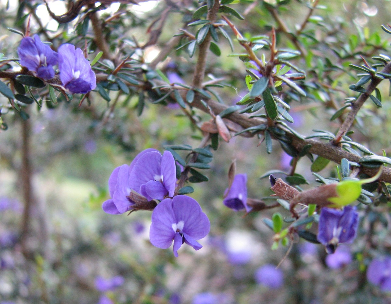 Maranoa Gardens, Balwyn, Victoria, Australia.